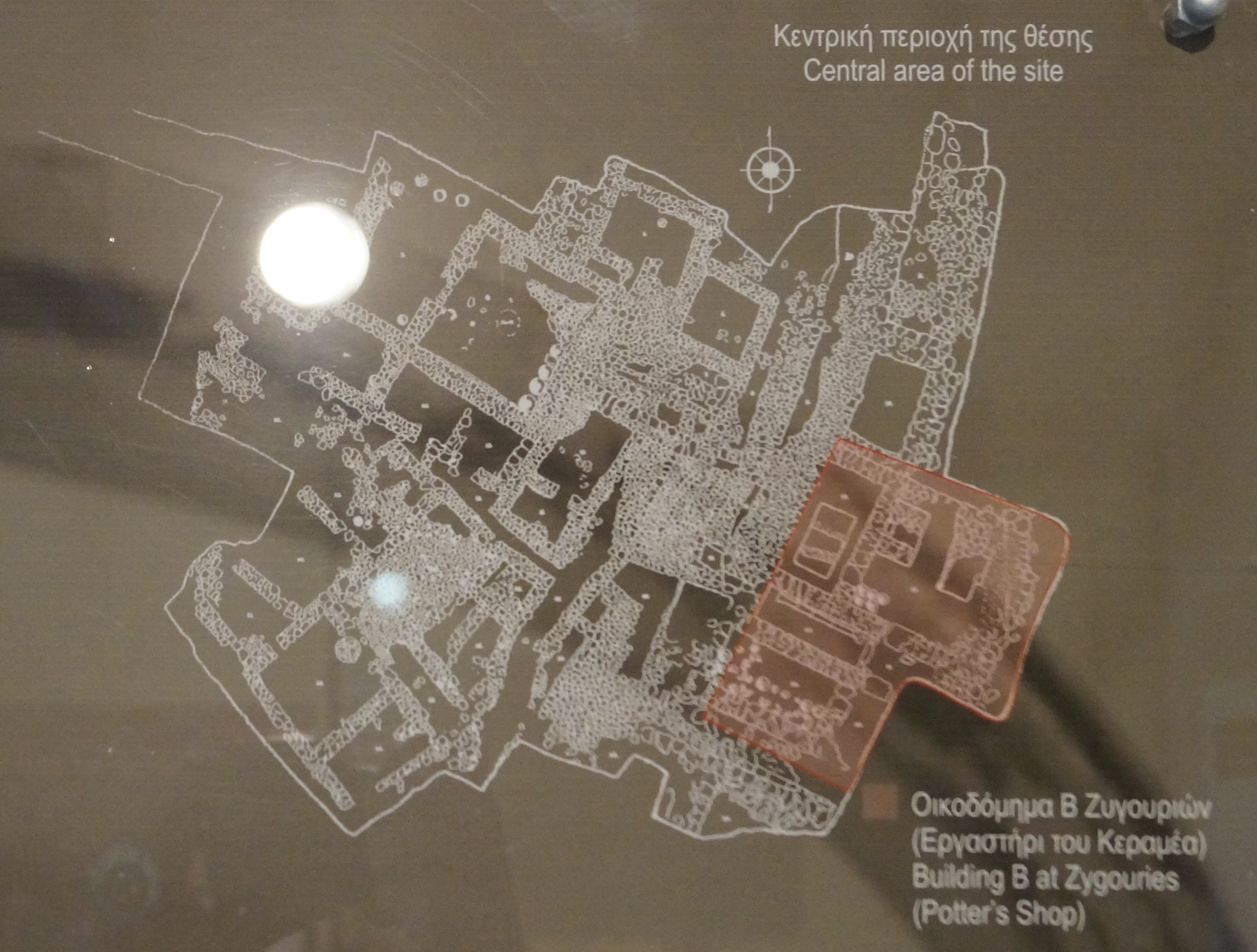 Archaeological Museum of Corinth, Corinthia, Greece: Plan of the archaeological site of Zygouries near Agios Vasilios. Central Area of the site.